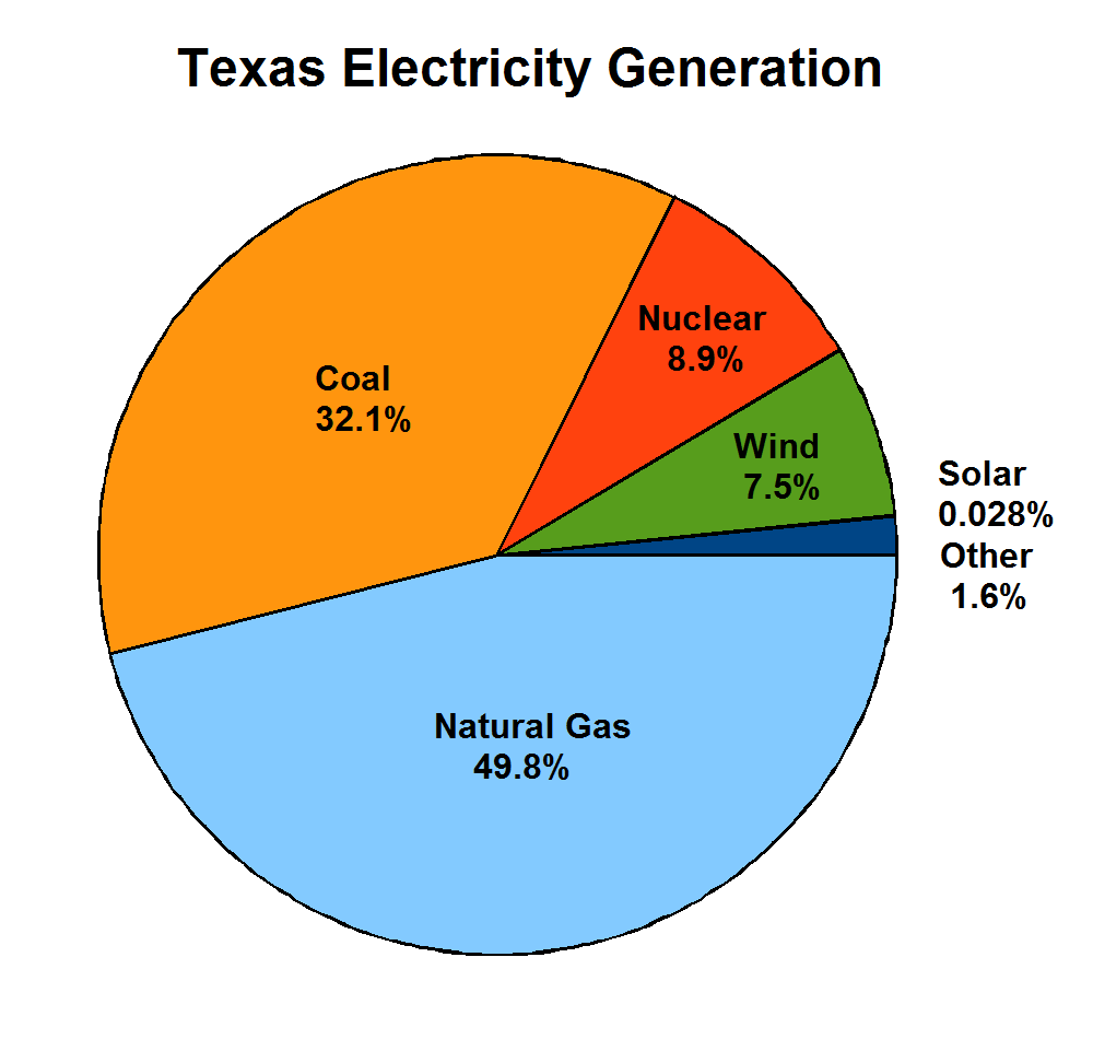 Sources of electricity generated in Texas, 2012 (US EIA)